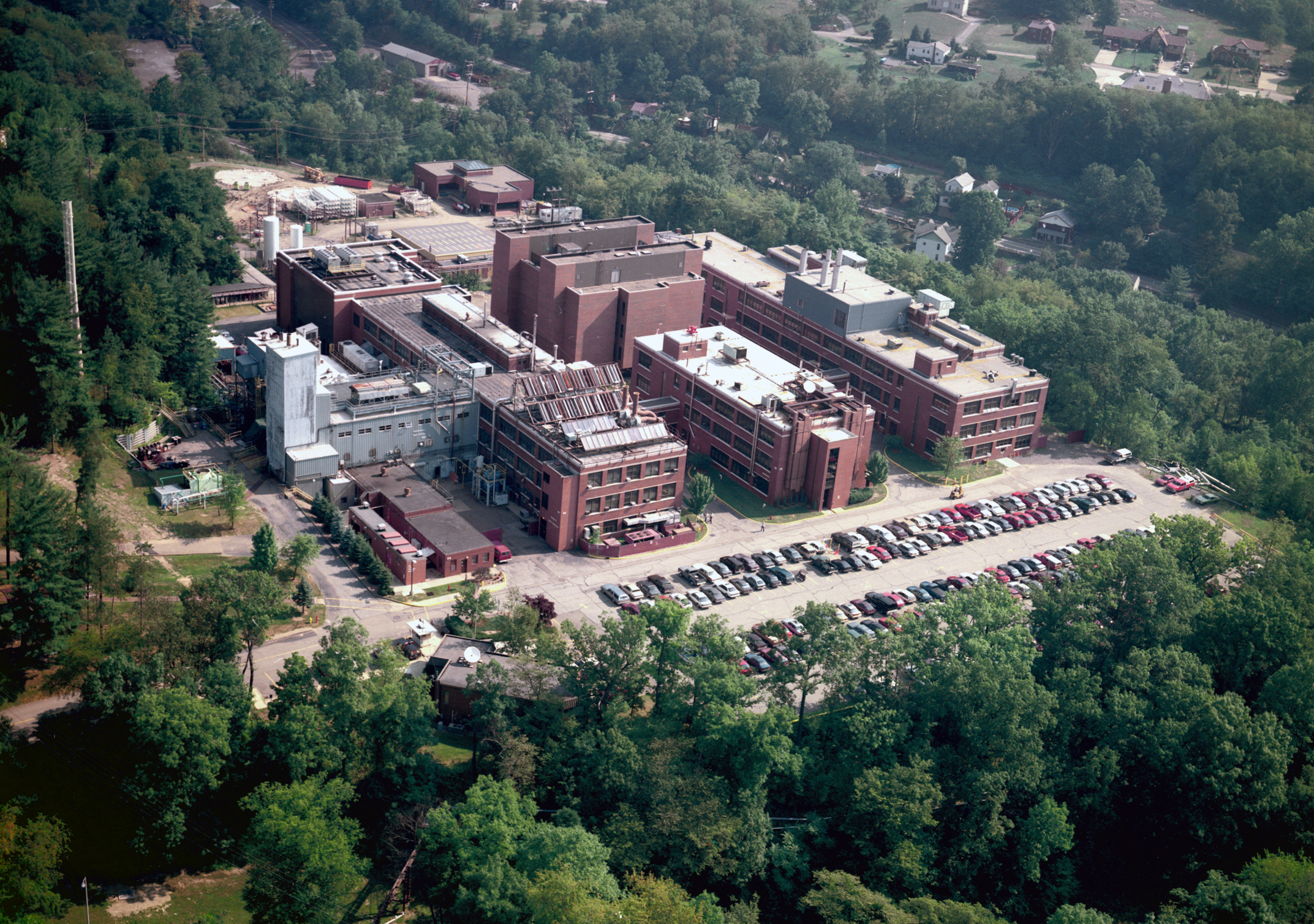 The R&D Plateau at NETL in Pittsburgh, PA